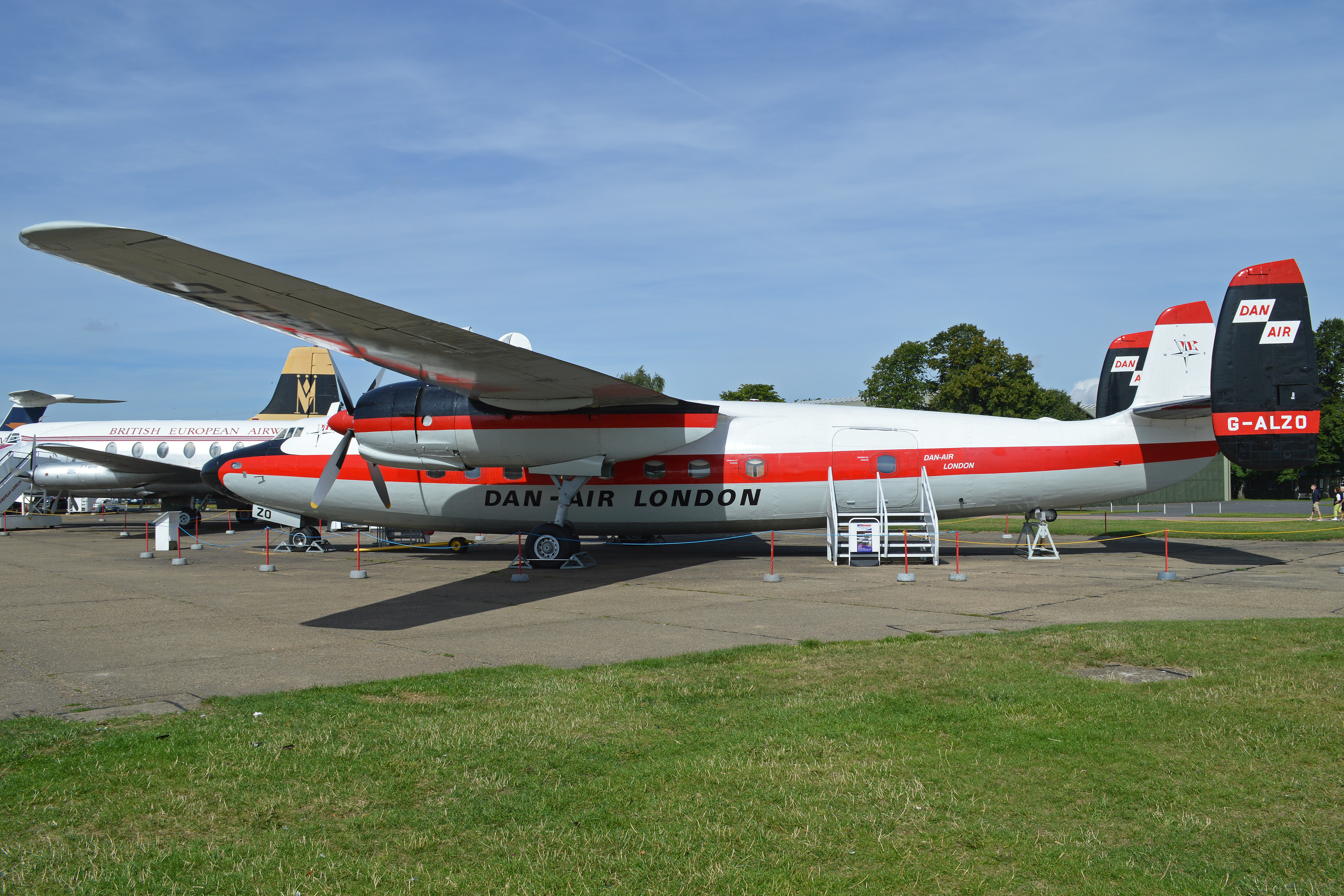 c/n 5226. Built 1950. This is the sole surviving Ambassador airliner of the 23 built and has been beautifully restored by Duxford Aviation Society volunteers into the colours of it's final operator 'Dan-Air London'. Hopefully, it will not remain outside for long. Previously on display at the Dan-Air company base of Lasham, the aircraft was donated to the D.A.S. for future preservation, together with an Avro York (G-ANTK). On display at the Imperial War Museum, Duxford. 02-8-2015